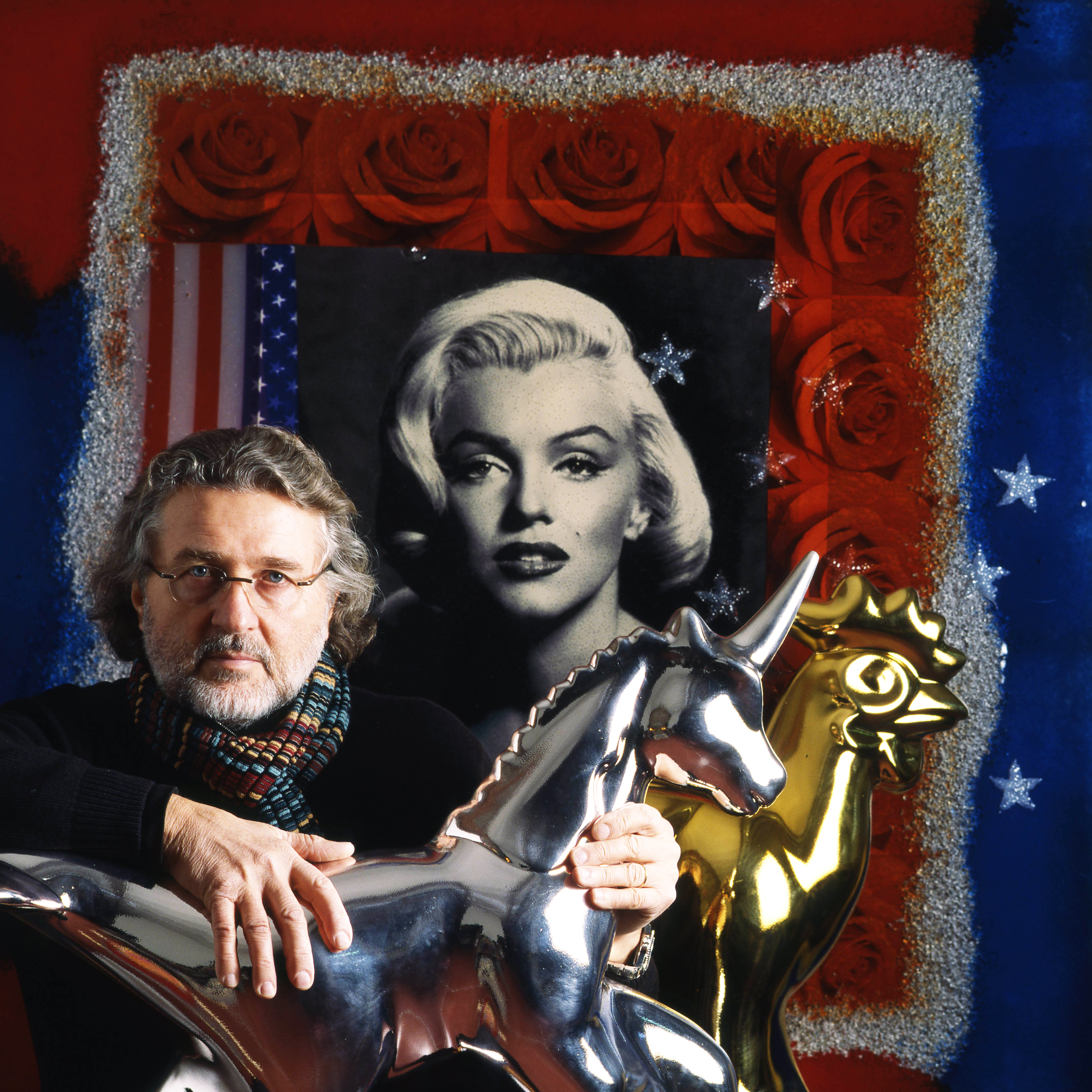 Omar Ronda by Ferdinando Cioffi